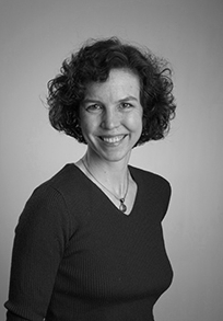 headshot